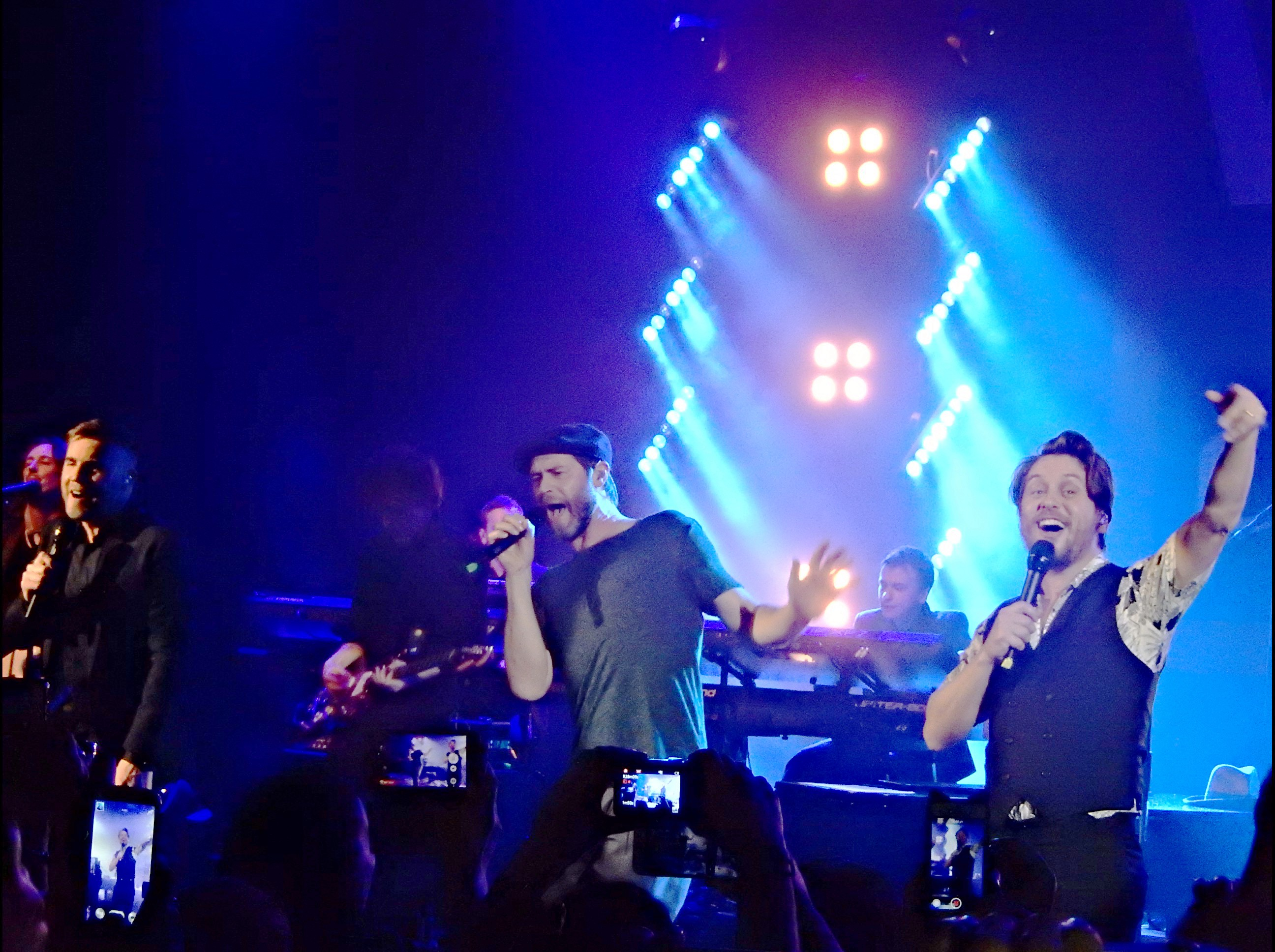 Take That, Shepherds Bush Empire, London